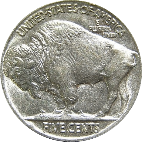 1935 Buffalo Nickel, photo taken by user Bobby131313 with an Olympus C-750 Ultra Zoom Bobby 04:04, 21 September 2006 (UTC)